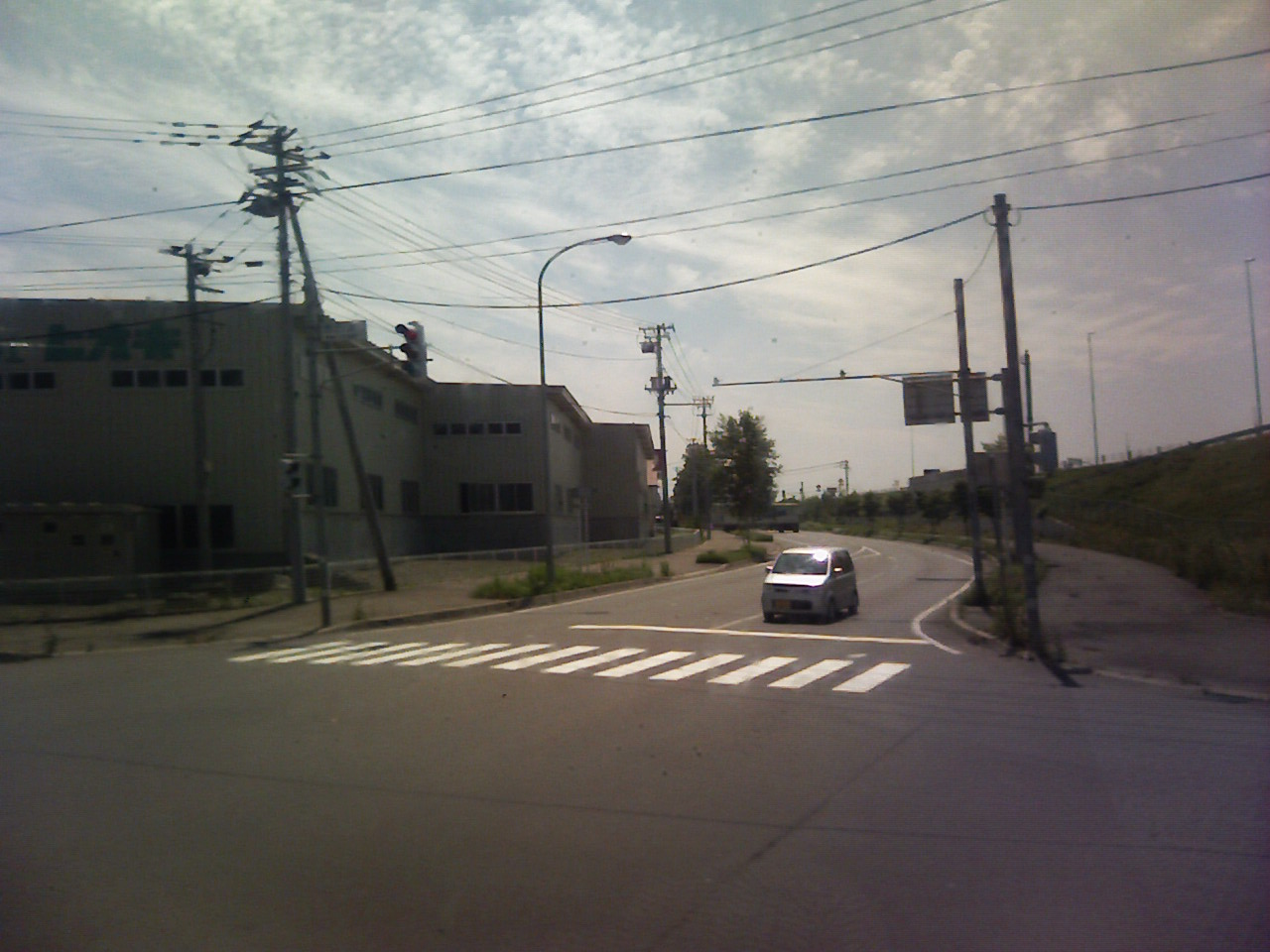 Hokkaido prefectural road route1152, Memuro, Hokkaido, Japan